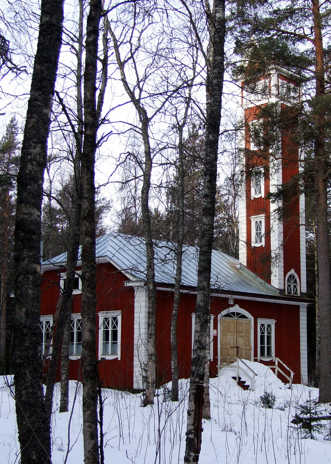 The fire station of the old saw mill community of Varjakansaari, Oulunsalo, Finland. The fire station was built ca. year 1900 and it was designed by arechitect Harald Andersin.